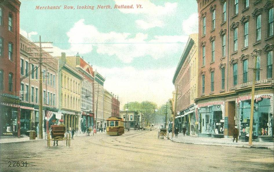 Merchants' Row, looking north, Rutland, Vermont; from a 1907 postcard published by the Souvenir Post Card Company, New York.